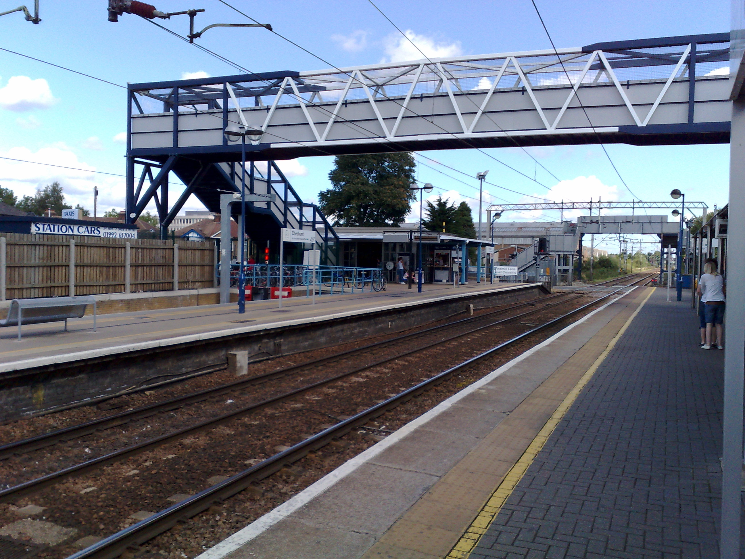 Cheshunt Rail Station August 2008 (following rebuilding works carried out 2006).